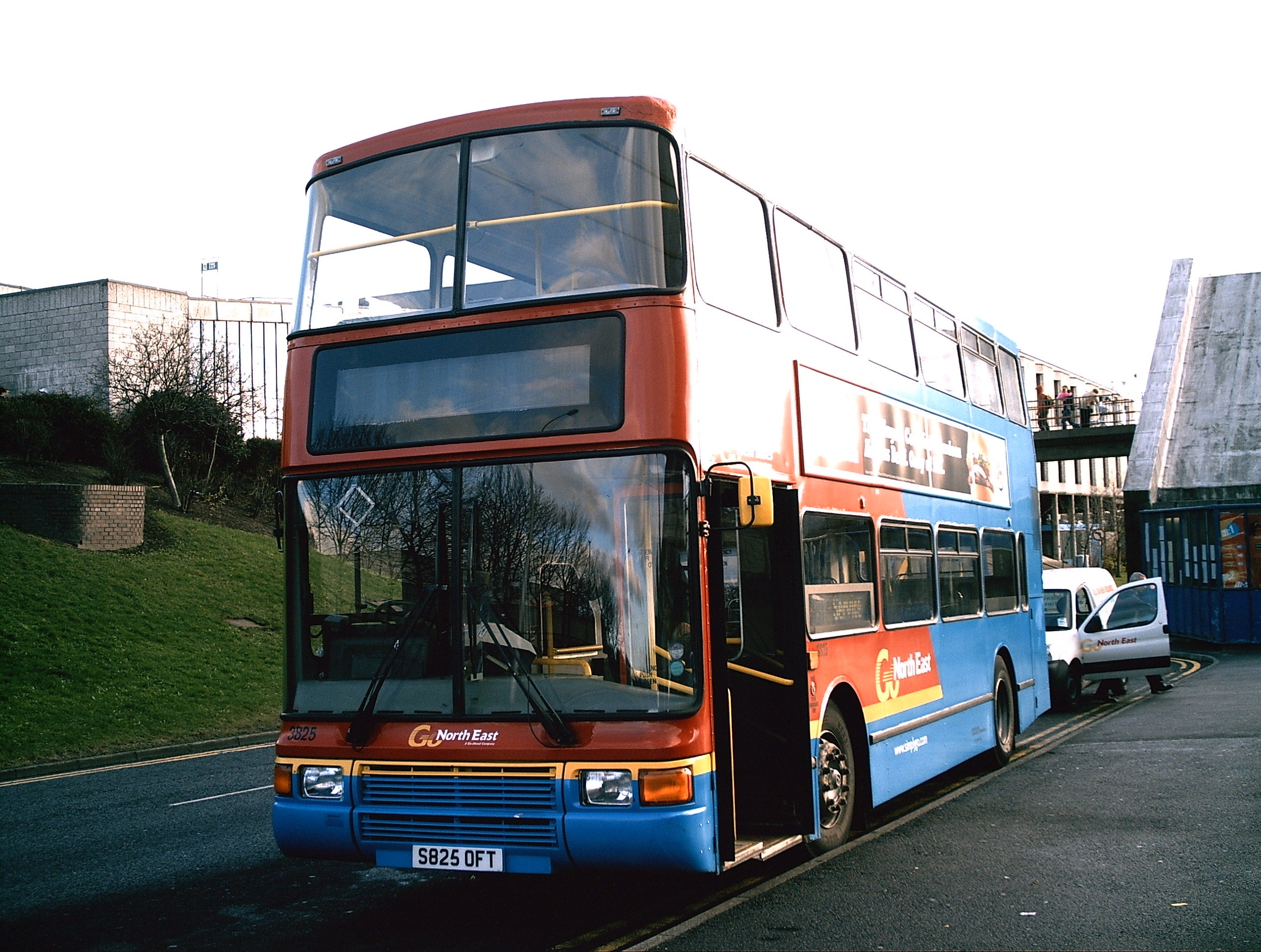 Go North East's 3825 (S825 OFT), a Volvo Olympian/Northern Counties Palatine II seen parked in a lay-by in Tyne and Wear, UK.